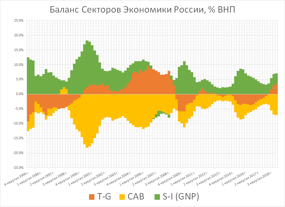 Балансы секторов экономки Российской Федерации с 1994 по 2019 годы.